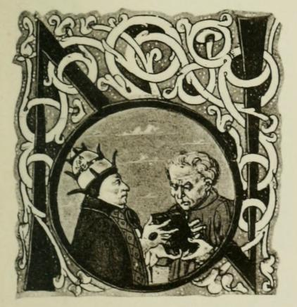 Pope Niccolò V. receives a book from Poggio Bracciolini